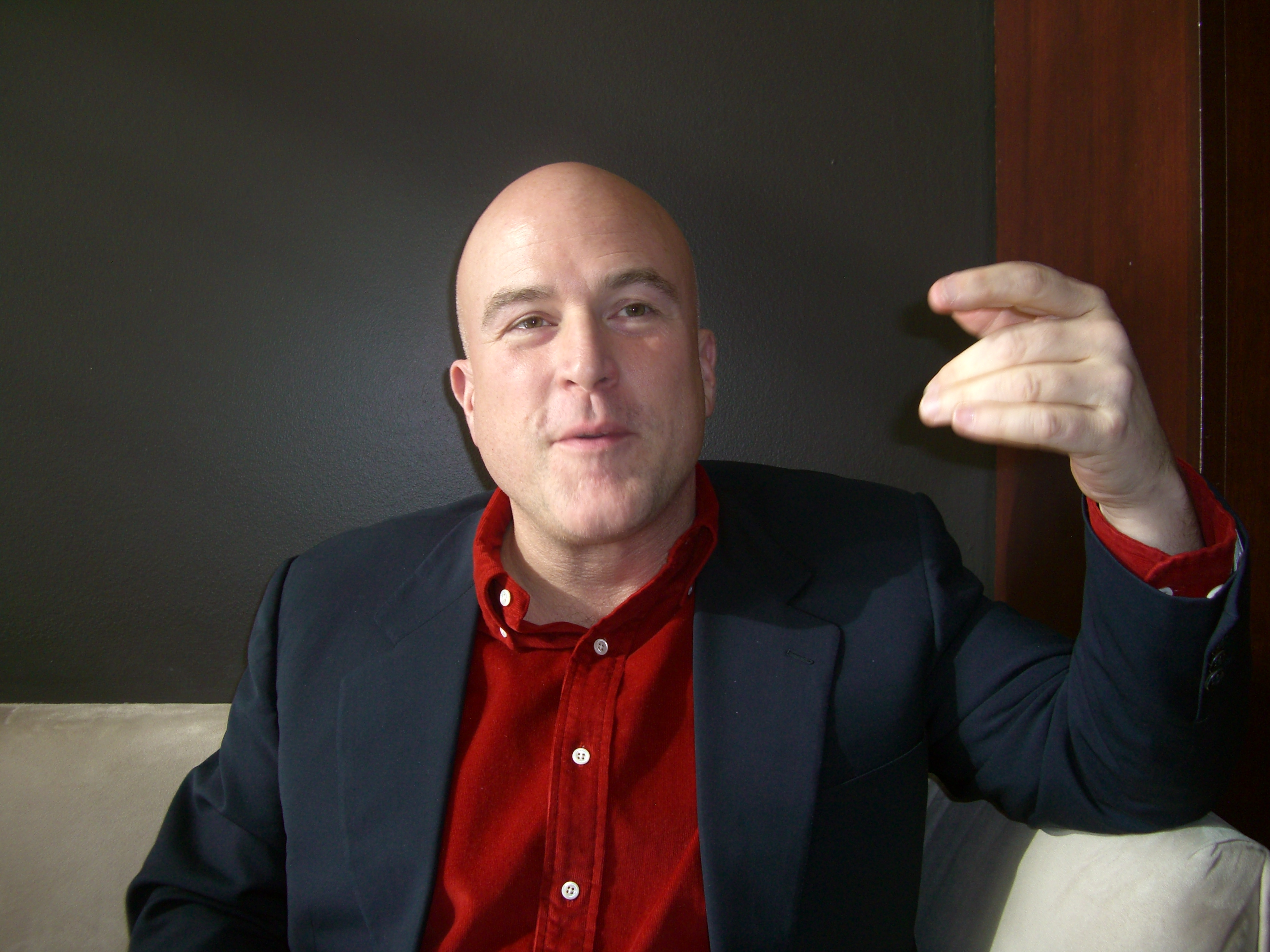 Andrew Paulson (born 1958, New Haven, Connecticut) – an American entrepreneur working in Russia. He is the son of noted American professor Ronald Paulson.